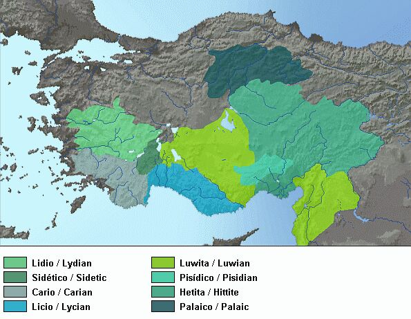 2nd millennium BC: Palaic, Hittite and proto-luwian language 1st millennium BC: Lydian, Lyician, Carian, Sidetian and Pisidic Language Them map is a diachronic one, not a synchronic one (be careful with this).